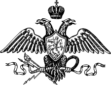 Russian coat of arms, 1825